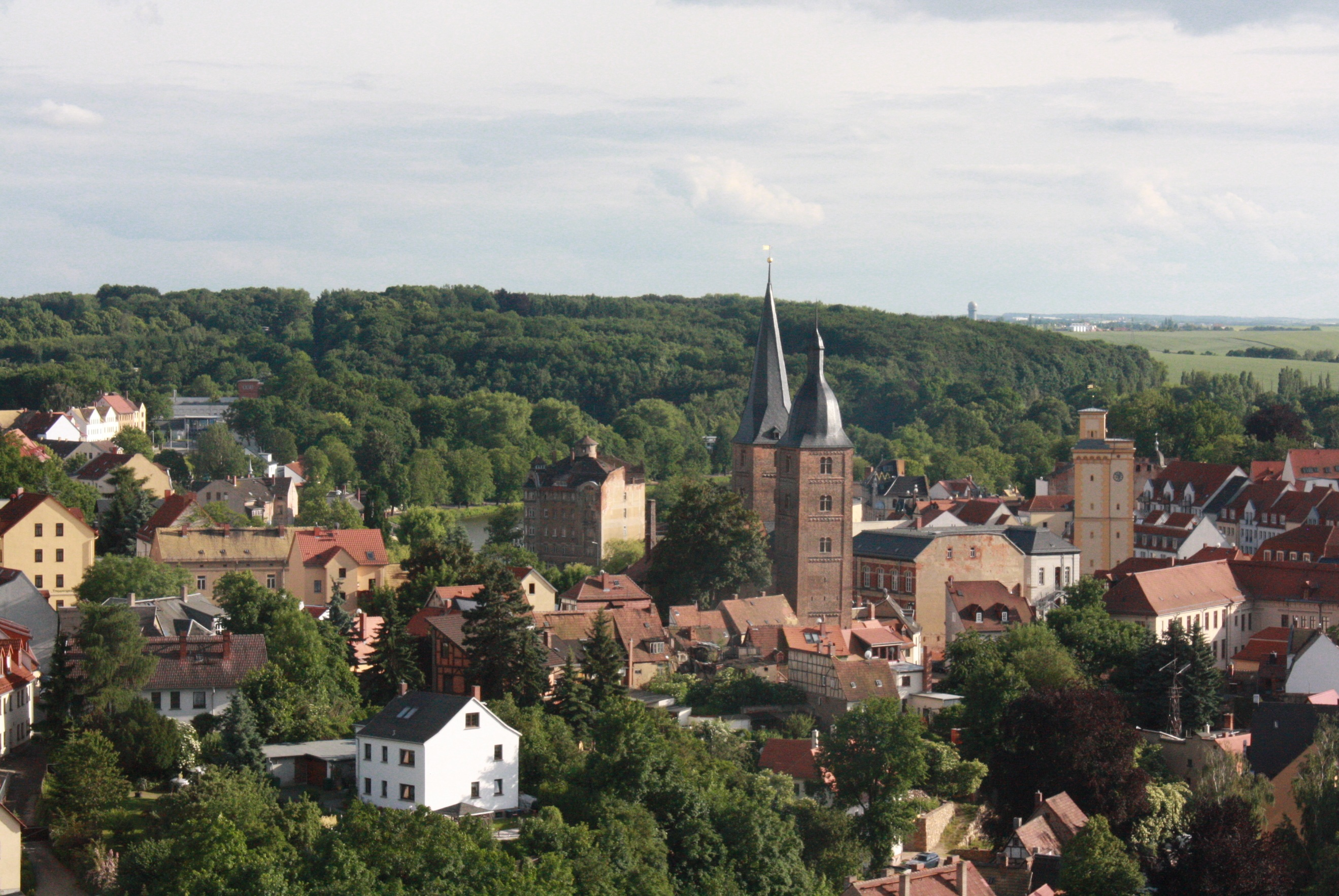 View over a part of the historical centre of Altenburg/Thuringia with the so calles Rote Sptzen (Red Spires)